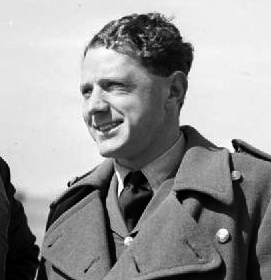 Flight Lieutenant Caesar Hull of No. 43 Squadron RAF at Wick, Caithness, at the time he had shot down three enemy aircraft. Hull became the commanding officer of the Squadron in September 1940 and was killed in action on 8 September having shot down at least 10 enemy aircraft. → This file has been extracted from another image: File:Royal Air Force Fighter Command, 1939-1945. CH89.jpg. This is a retouched picture, which means that it has been digitally altered from its original version. Modifications: cropped. The original can be viewed here: Royal Air Force Fighter Command, 1939-1945. CH89.jpg. Modifications made by Cliftonian.